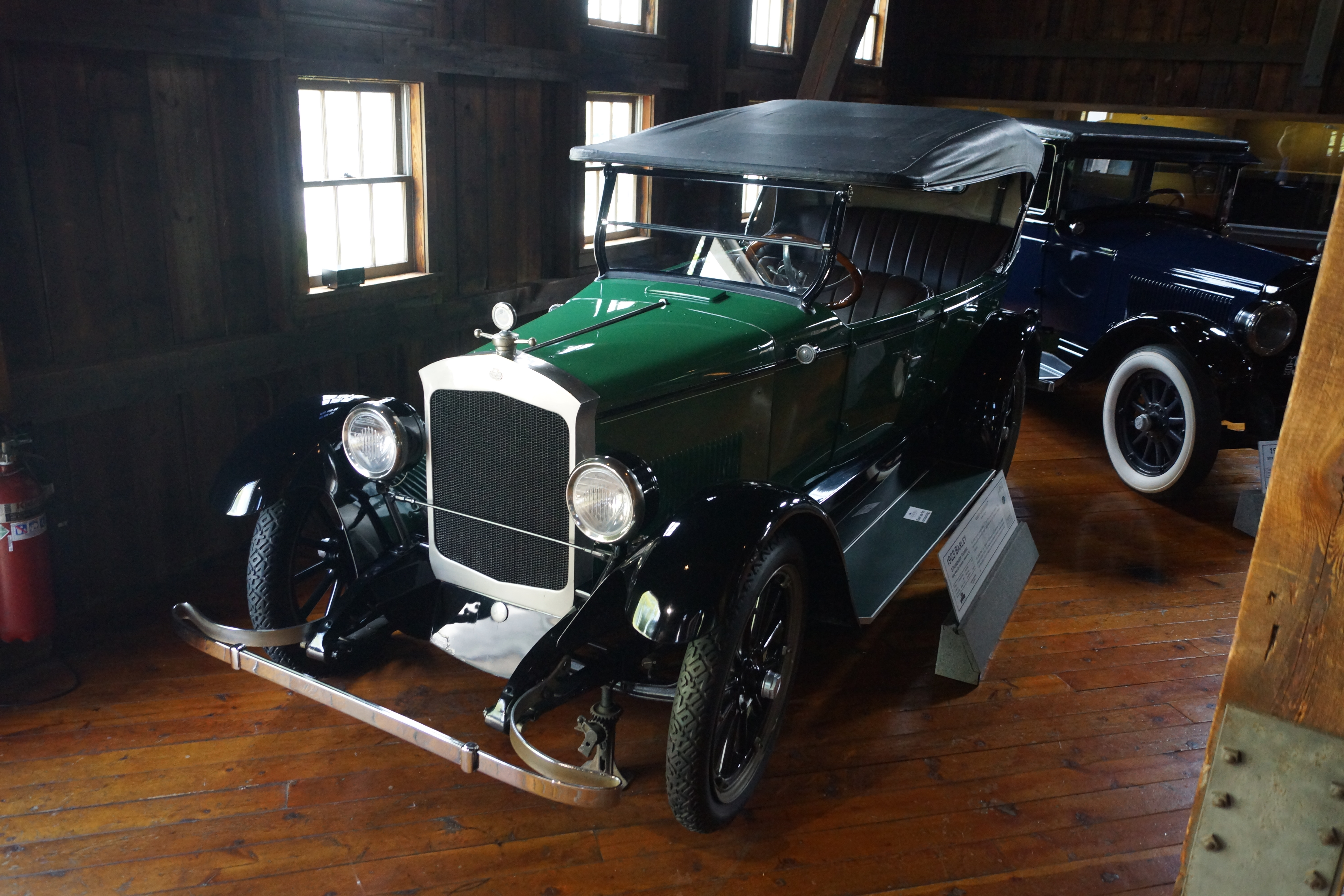 1923 Barley 6-50 Touring at the Gilmore Car Museum 6865 W Hickory Rd. Hickory Corners, Michigan May 2017 Back in February I was told I had to schedule some vacation before July, At about the same, an article appeared on the Hemmings blog about the first ever joint meeting of AACA (Anitique Automobile Club of America) and CCCA (Classic Car Club of America) in Auburn, Indiana. It was too good of an opportunity to pass up two car clubs and all of the automotive history packed into Auburn, Indiana. Since I was driving from Mnnesota, I made a slight detour to see the Gilmore Car Museum on the way to Indiana. Link to Hemmings Article: Click here for more car pictures at my Flickr site. Or here for my Car Crazy Tumblr site. Or on Twitter @DVS1mn.